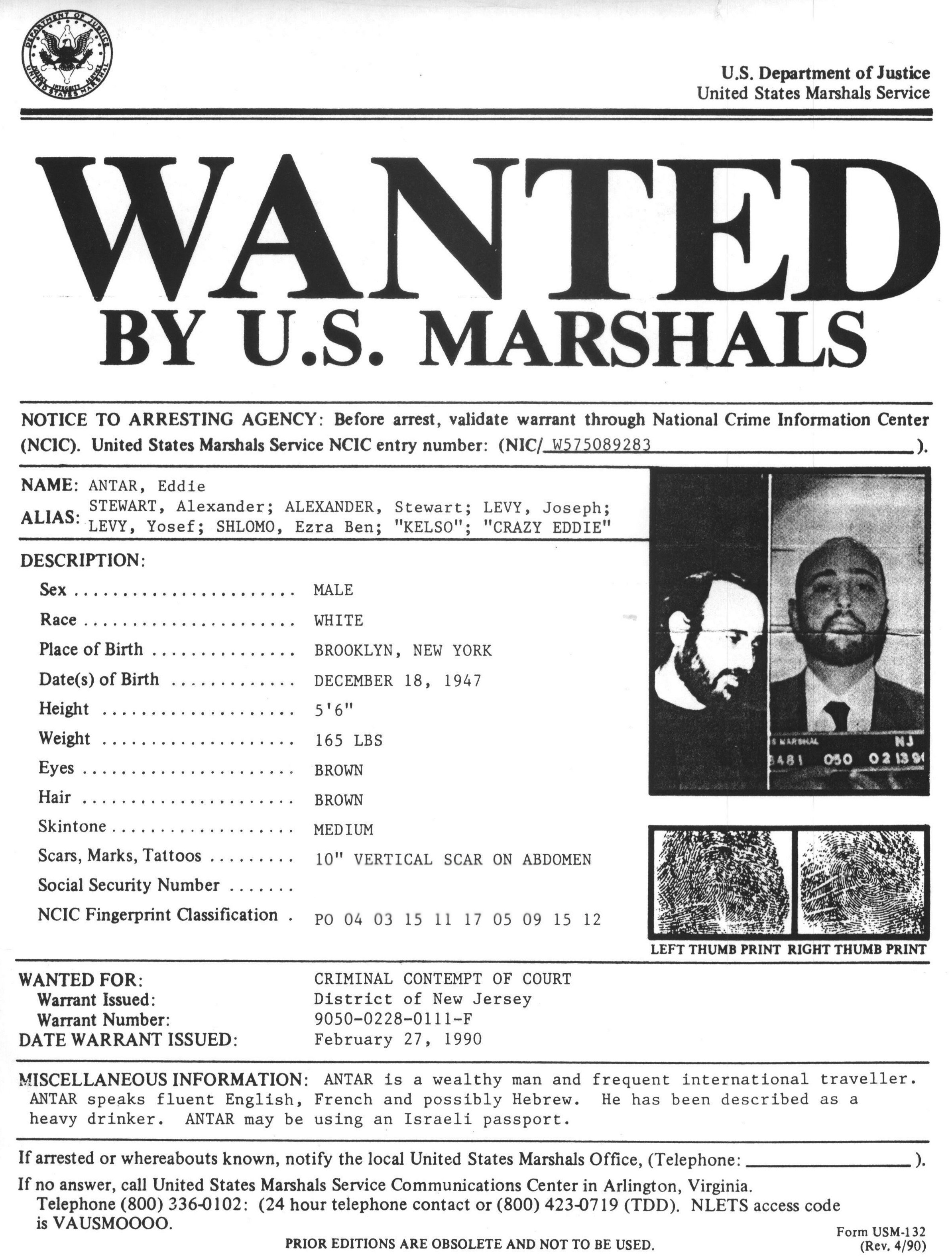 Images of the 1990 arrest warrant issued for Crazy Eddie co-founder Eddie Antar. Obtained from